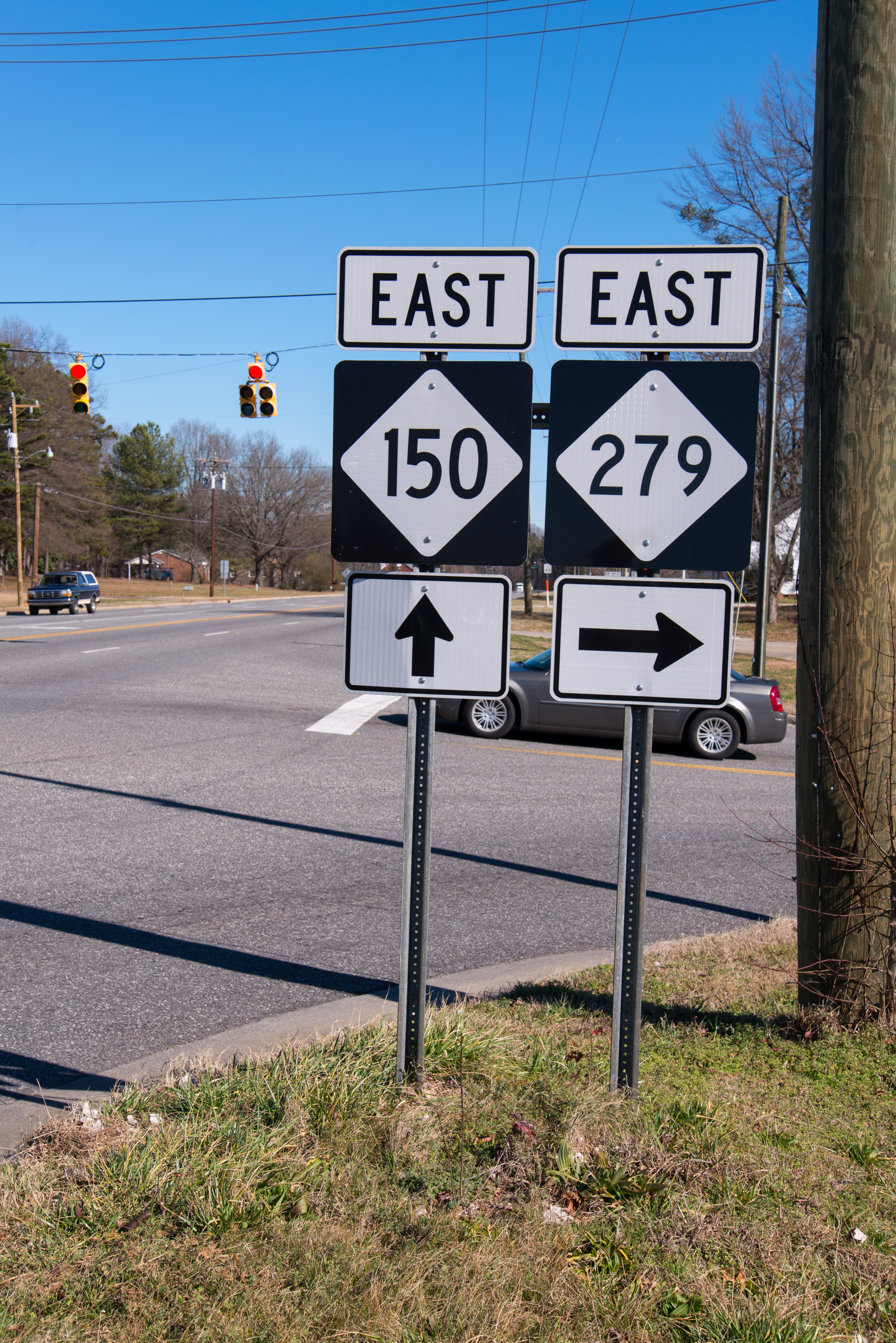 Directional signs of NC 150 (Church Street) and NC 279 (Rudisill Avenue), in Cherryville, North Carolina